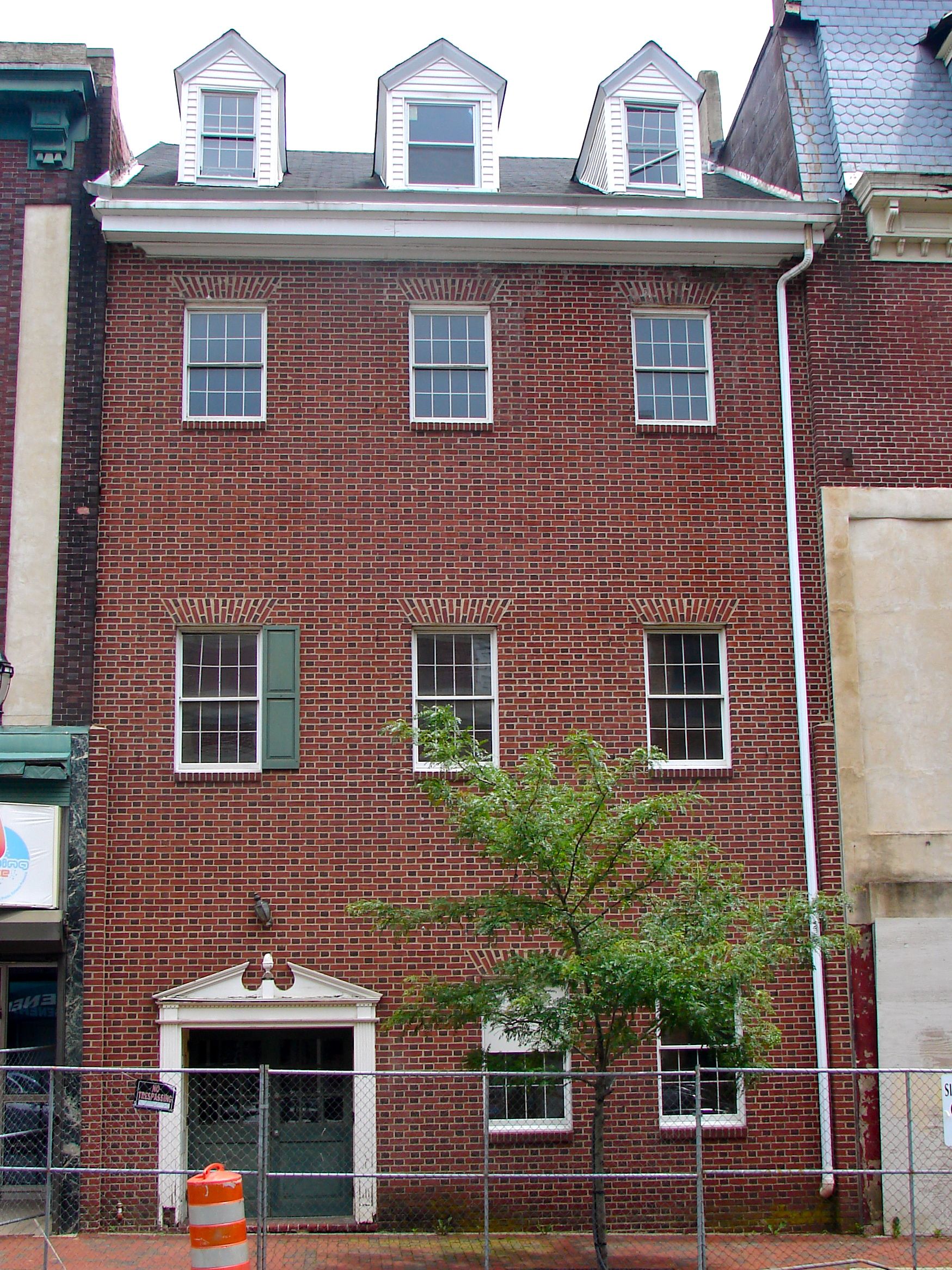 Louis McLane House on the NRHP since April 24, 1973, at 606 Market St., Wilmington, Delaware. Old building with remarkable history, especially of those who lived here, especial of Louis McLane, ambassador, cabinet member (under Jackson). Redone, worn down, redone again many times, so that it probably bears little resemblance to the original building, but the 3 dormers on the roof look very much like original drawings. 608 next door is also on the NRHP